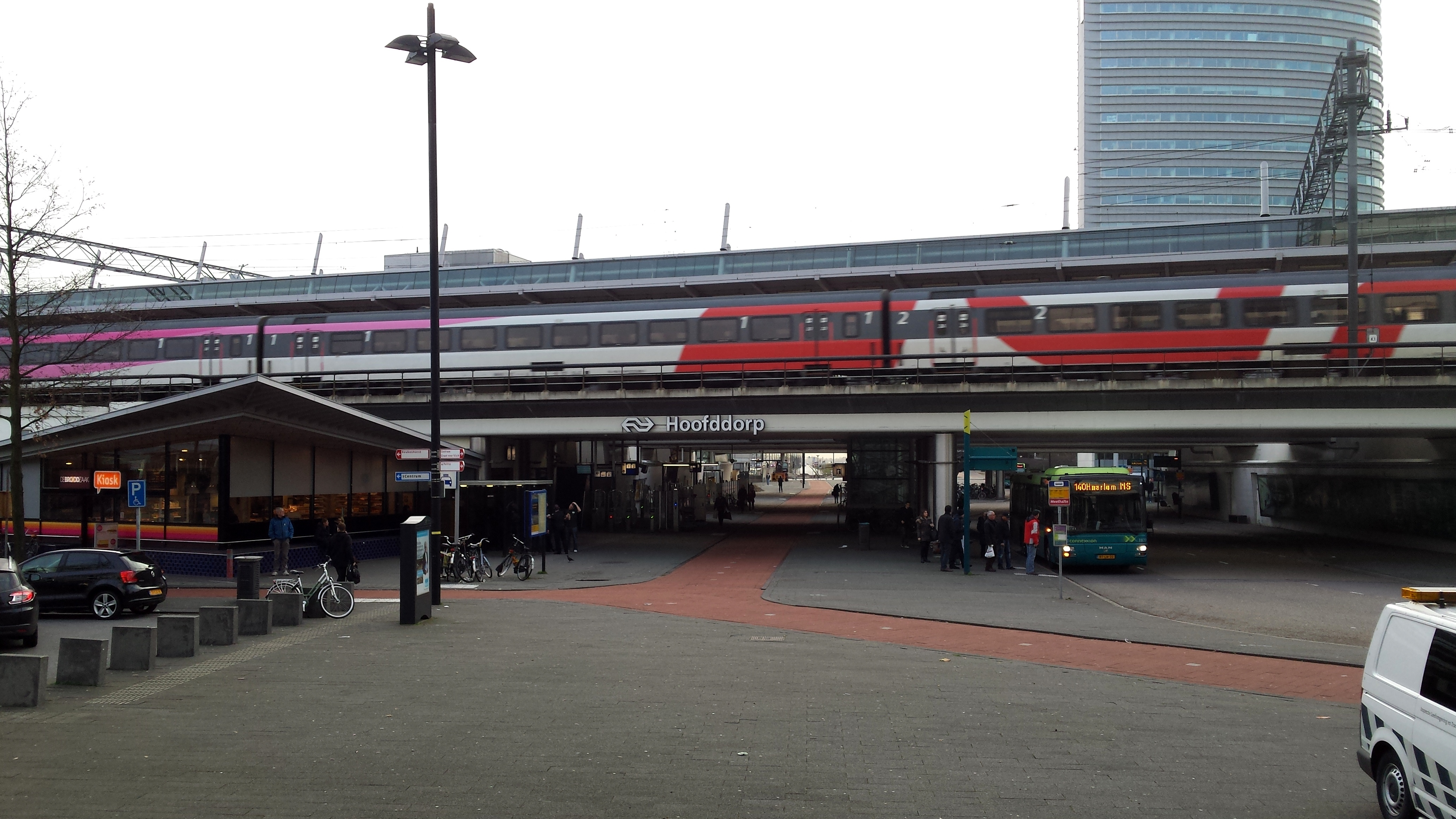 Hoofddorp Train Station in The Netherlands, 2013 - Photo: Persian Dutch Network